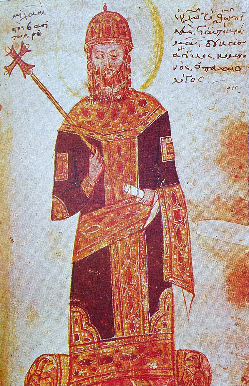 Michael VIII Palaiologos. Miniature from the manuscript of Pachymeres' Historia, 14th century. Munich, Bayerische Staatsbibliothek.